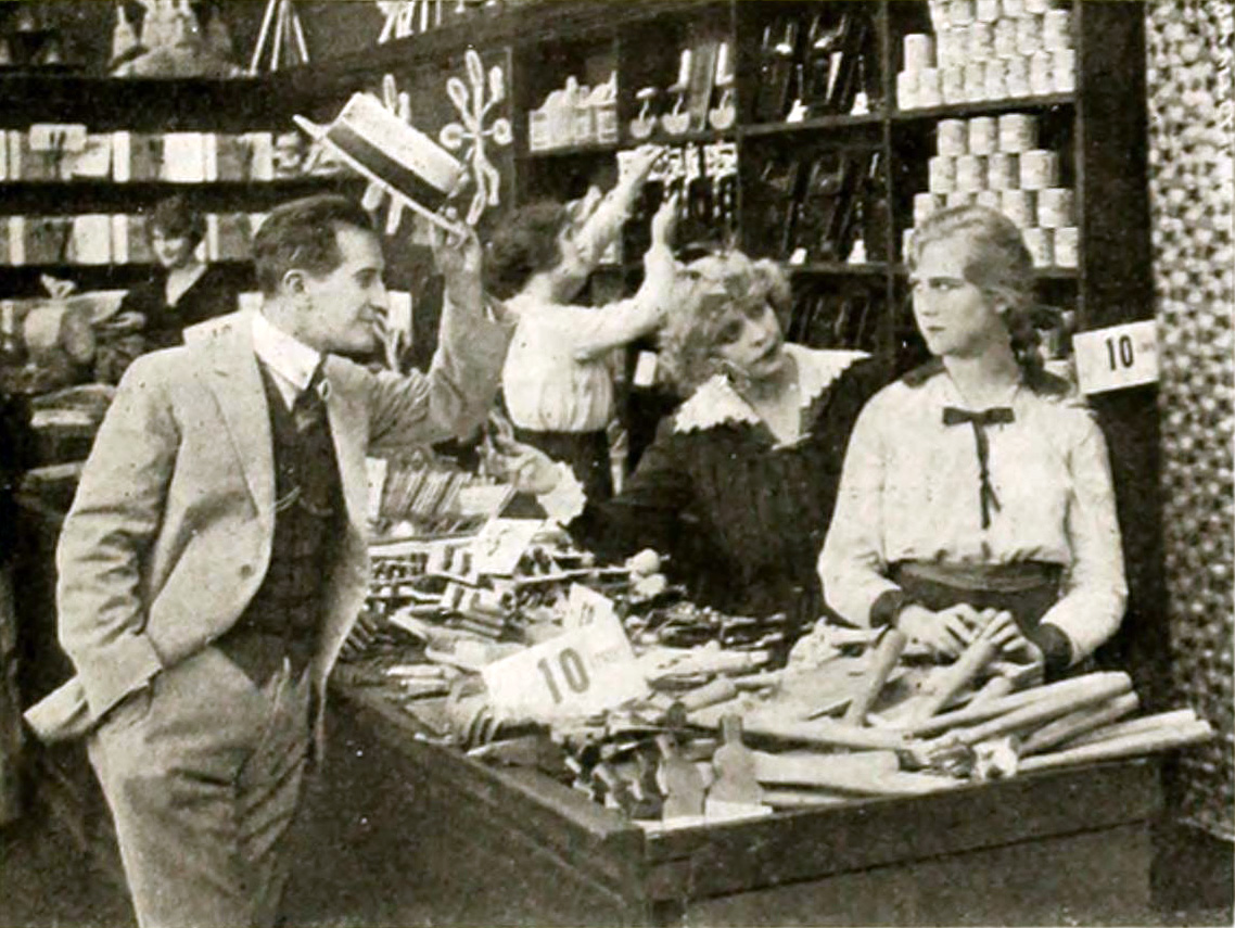 Illustration a review in The Moving Picture World for the American film Shoes (1916).